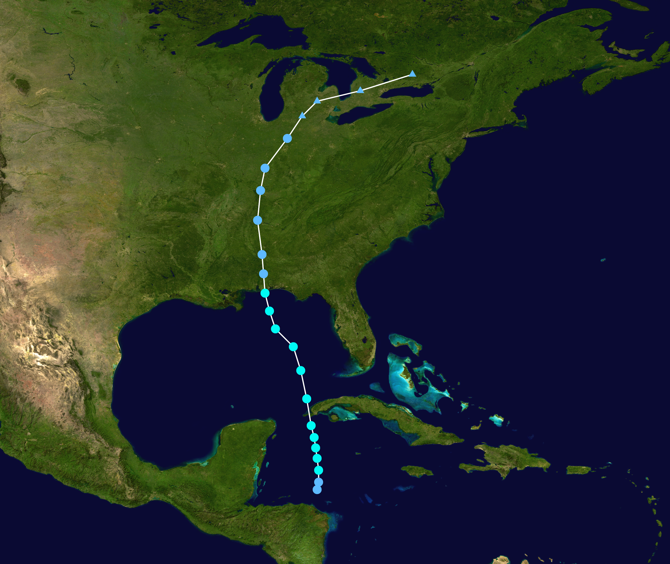 Track map of Tropical Storm Arlene of the 2005 Atlantic hurricane season. The points show the location of the storm at 6-hour intervals. The colour represents the storm's maximum sustained wind speeds as classified in the Saffir–Simpson scale (see below), and the shape of the data points represent the nature of the storm, according to the legend below. Saffir–Simpson scale Tropical depression≤38 mph≤62 km/h Category 3111–129 mph178–208 km/h Tropical storm39–73 mph63–118 km/h Category 4130–156 mph209–251 km/h Category 174–95 mph119–153 km/h Category 5≥157 mph≥252 km/h Category 296–110 mph154–177 km/h Unknown Storm type Tropical cyclone Subtropical cyclone Extratropical cyclone / Remnant low / Tropical disturbance / Monsoon depression